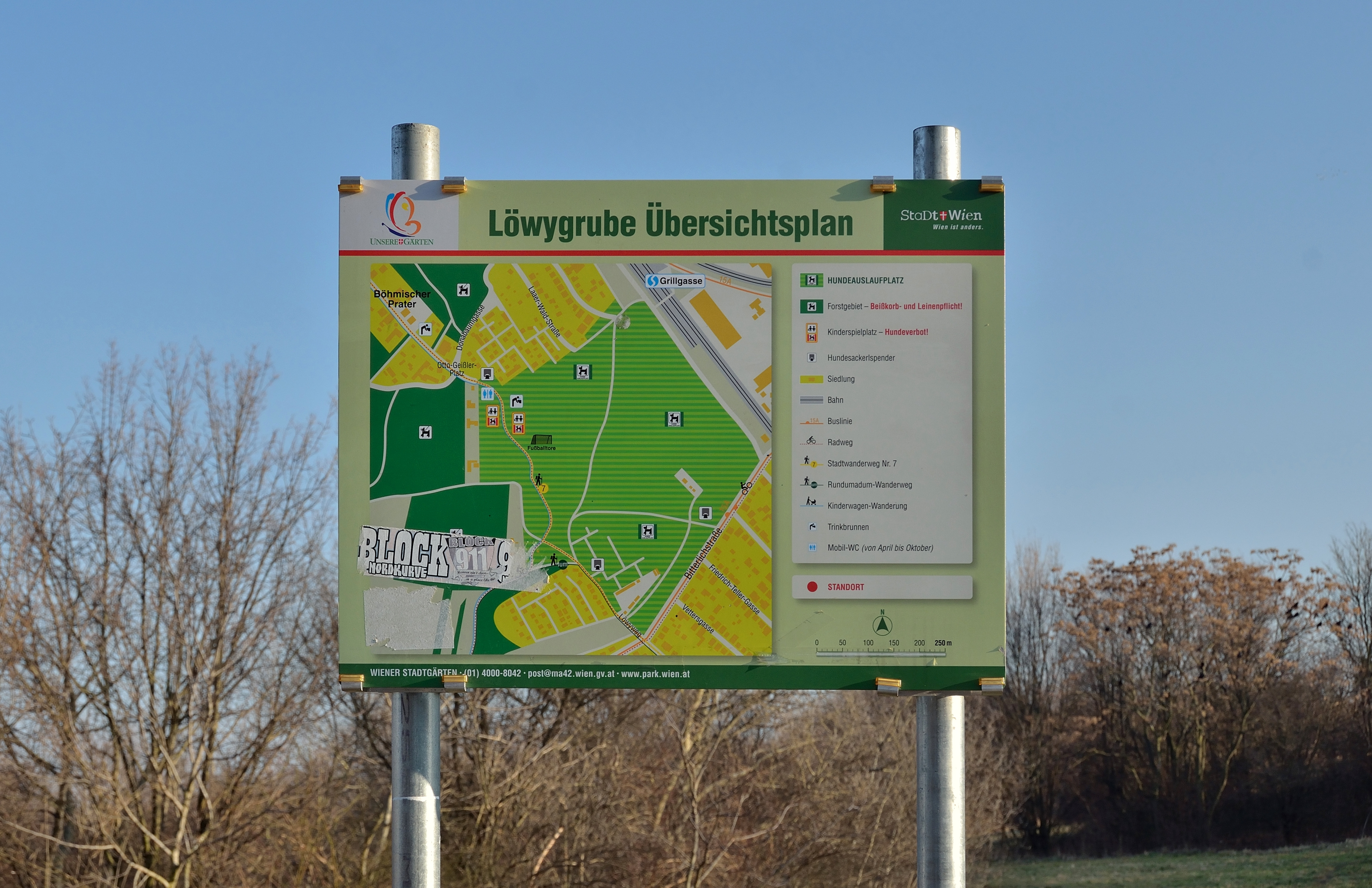 Löwygrube, a former clay pit, from the beginning of the 1950s till 1965 used as a city dump, then closed. Starting with 1995 secured, now a recreation area and part of the Laaer Wald.